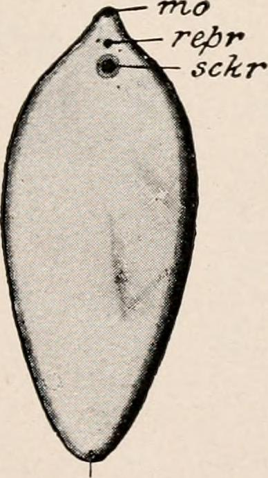 Identifier: introductiontozo00dave Title: Introduction to zoology; a guide to the study of animals, for the use of secondary schools; Year: 1900 (1900s) Authors: Davenport, Charles Benedict, 1866-1944 Davenport, Gertrude Anna Crotty, 1866- Subjects: Zoology Publisher: New York, Macmillan company London, Macmillian and co., ltd. Text Appearing Before Image: produces liver-flukes.3 Theyoung liver-flukes wriggle out of the snail, attach them-selves to damp grass, lose their tails, and encyst them-selves. If these cysts be eaten by asheep, they develop in the sheepsbody into an adult liver-fluke (Fig.145). Thus the stages which we canrecognize in the liver-fluke are : - First generation : egg from liver-fluke, larva, and adult sporocyst.Second generation : redia (this may be several times repeated).Third generation : cercaria larva, encysted larva, and adult liver-fluke. 1 Fig. 140, B. 2 Fig. 140, C. 3 These, while young, have tails, and are called cercaria. Text Appearing After Image: ever FIG. 145. - Distomum,the liver-fluke. Nat.size. Excr., excretorypore; mo., mouth; rep?.,reproductive aperture ;-srA1/*., posterior sucker.From Parker and Has-well. 156 ZOOLOGY Another flat worm is such an abject parasite that it haslost most of the organs usually possessed by worms. This isthe tapeworm (Fig. 147). When the eggs of the tape-worm are taken into the body of an herbivorous animal, theembryos develop there for a way and then stop. Whenflesh containing these embryos is eaten by a carnivorous eye.